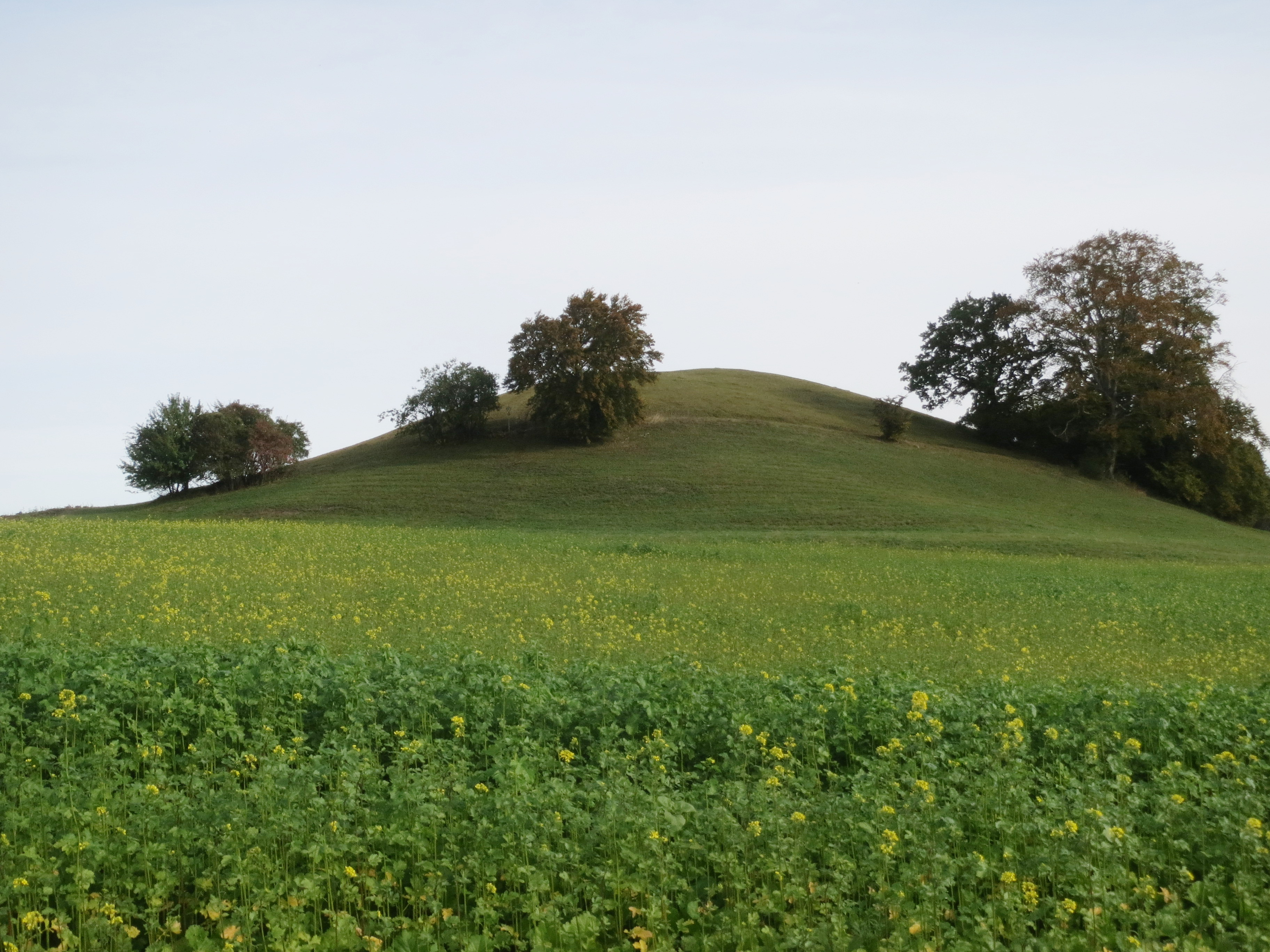 The Bäckerbichl, a moulin kame